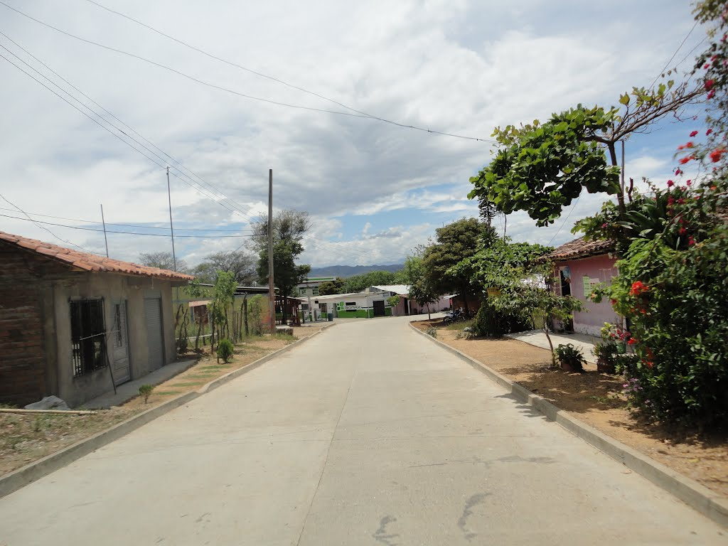 The village of "Santa Lucía" in Leiva (Nariño).